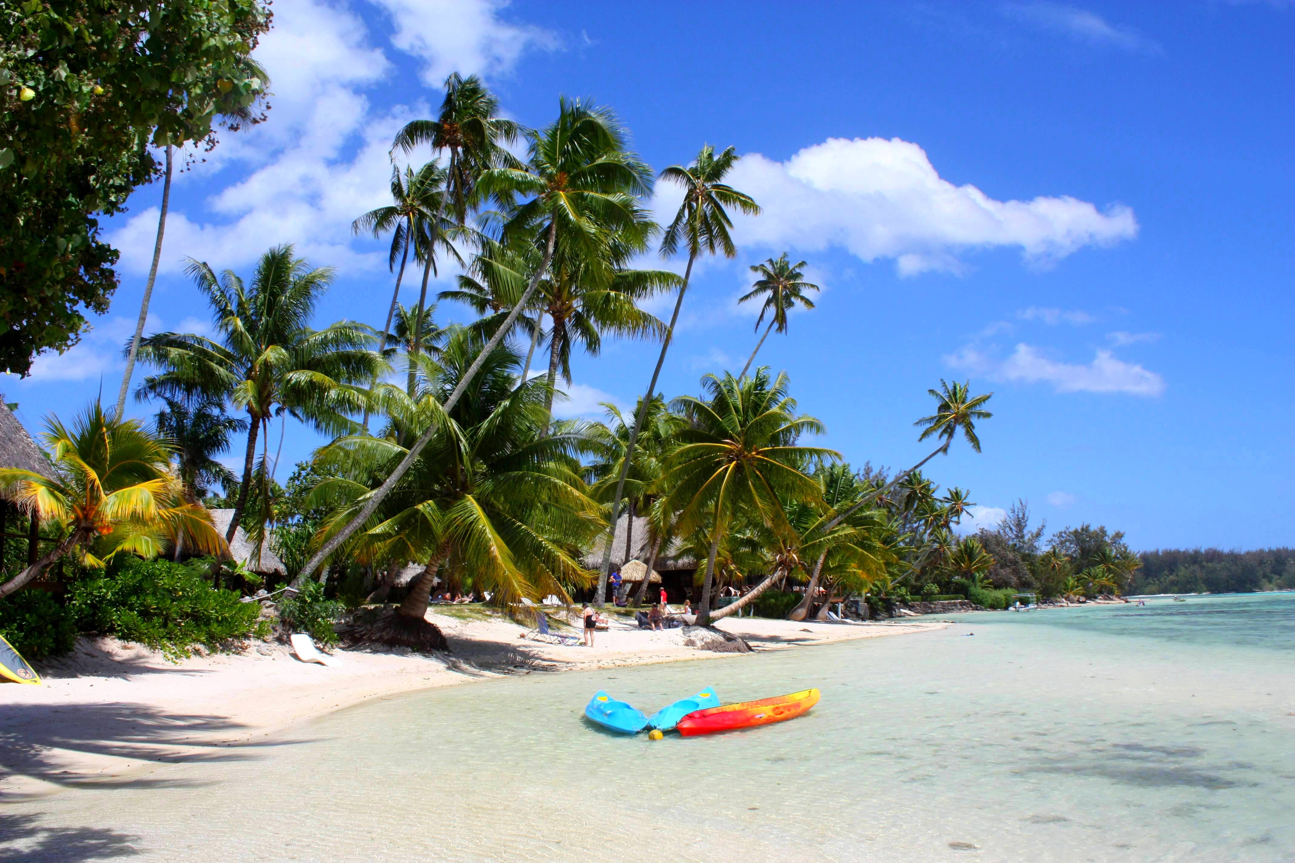 All beach in Mooréa are a bit little with white sand and the lagoon isn't deep in this place maximum 4 meters but you, can see the Lagoon is particularly nice with any colour from blue to green emerald !